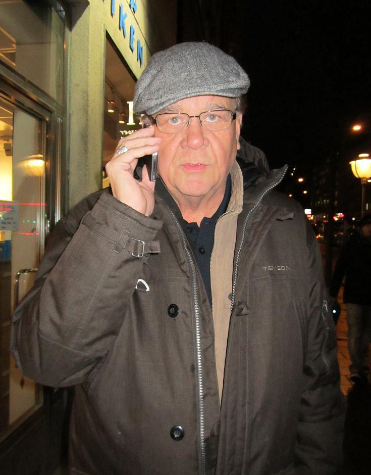 Lasse BerghagenPlace: Odengatan, Stockholm, Sweden